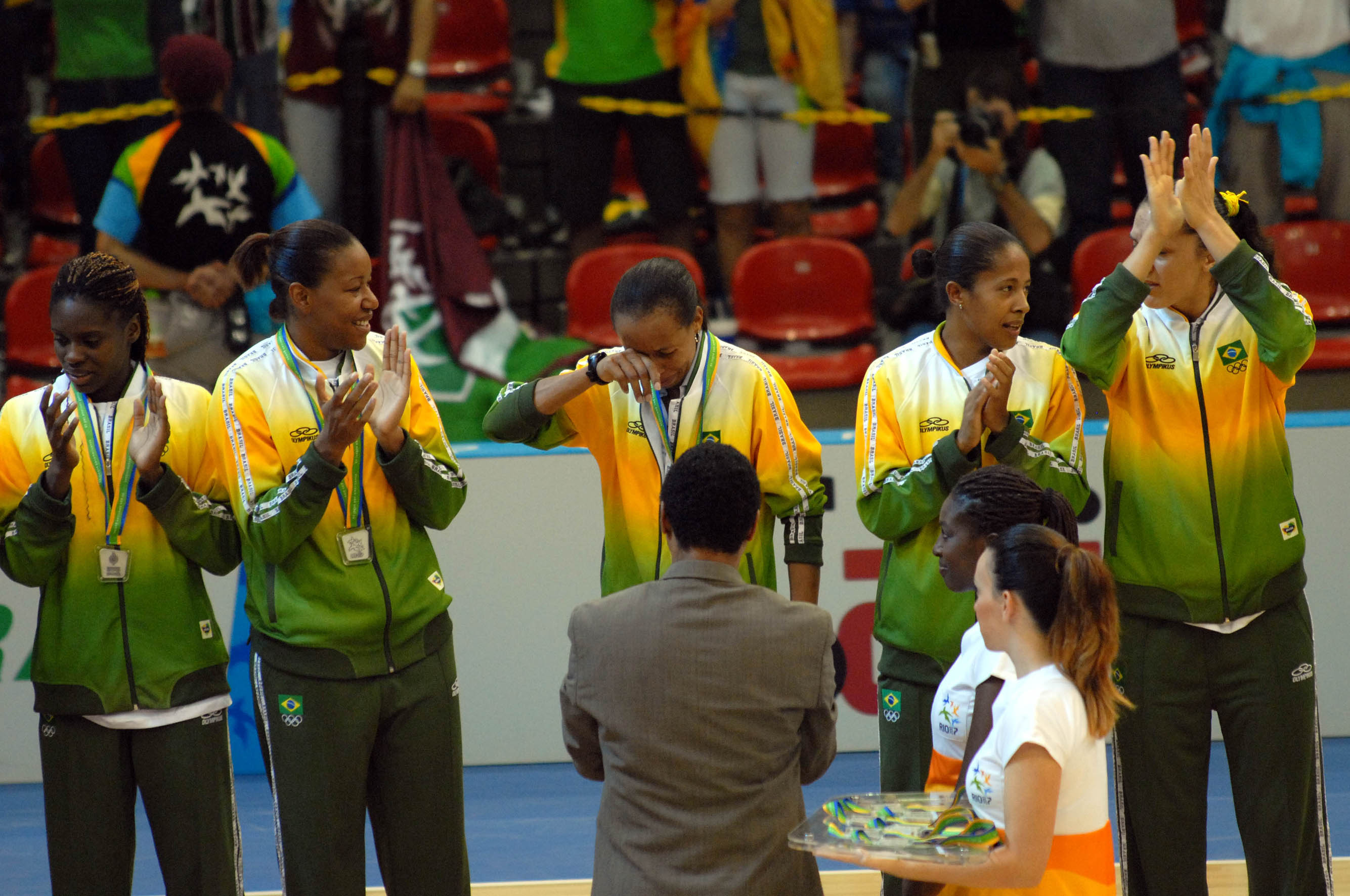 Janeth Arcain says goodbye to basketball with a silver medal in Rio 2007 Pan American Games